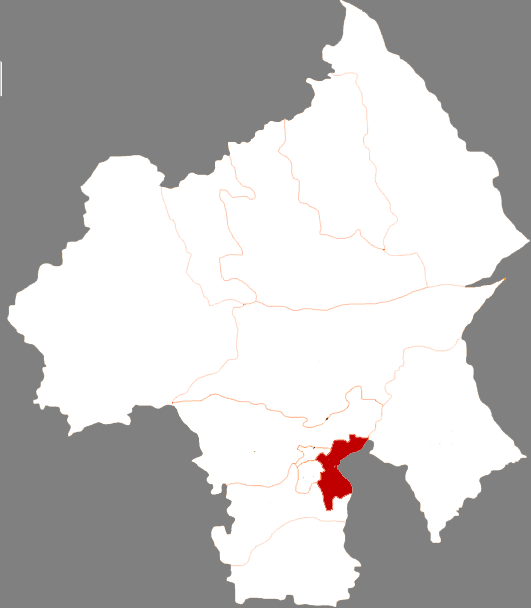 Location of Yuanbaoshan districtr in Chifeng City, China